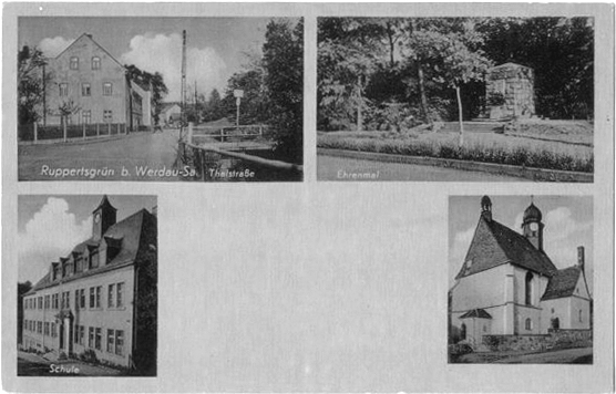 This is a old picture postcard of Ruppertsgruen in Saxony (Germany), a small village.